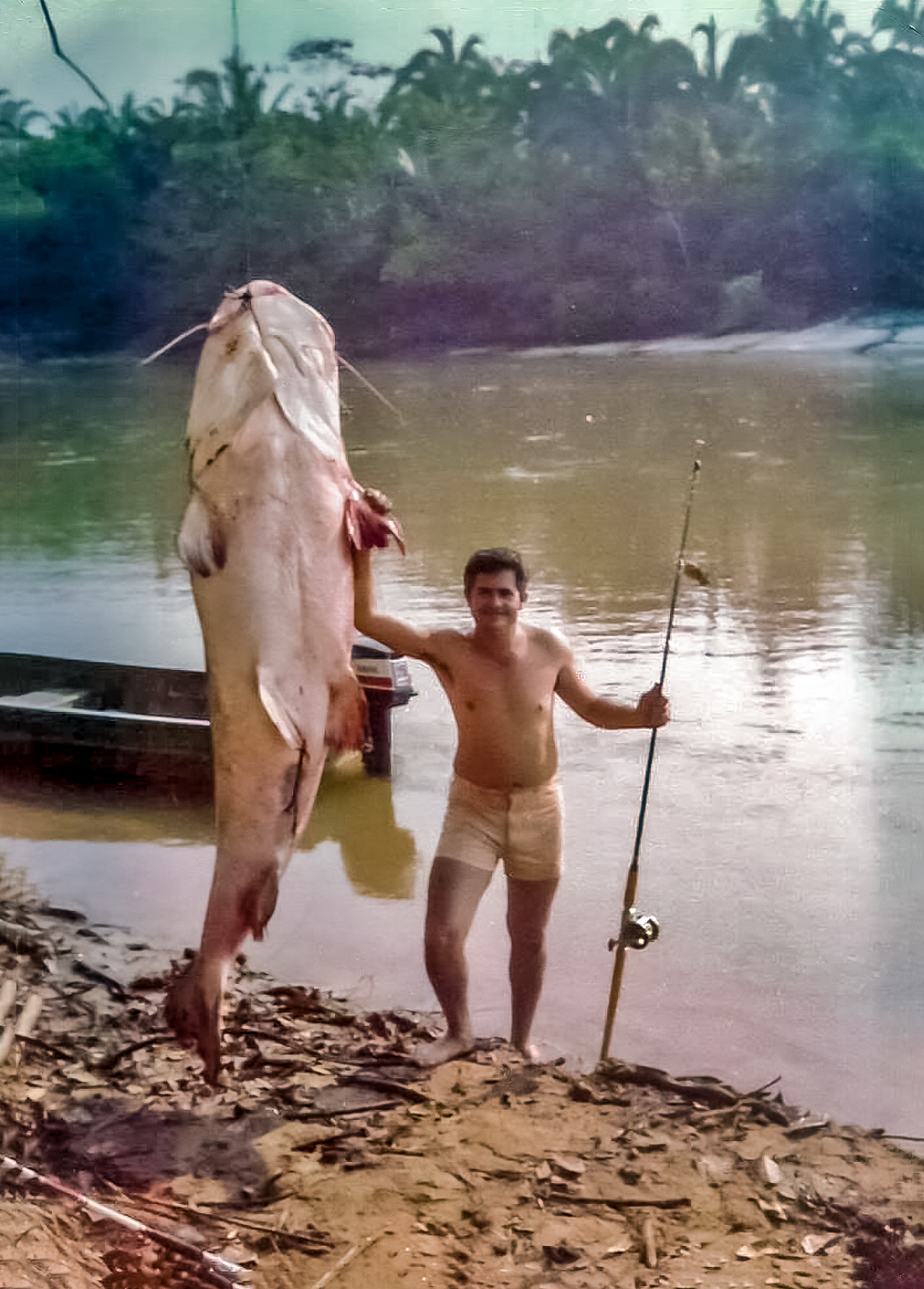 Brachyplathystoma filamentosum with 210 kg